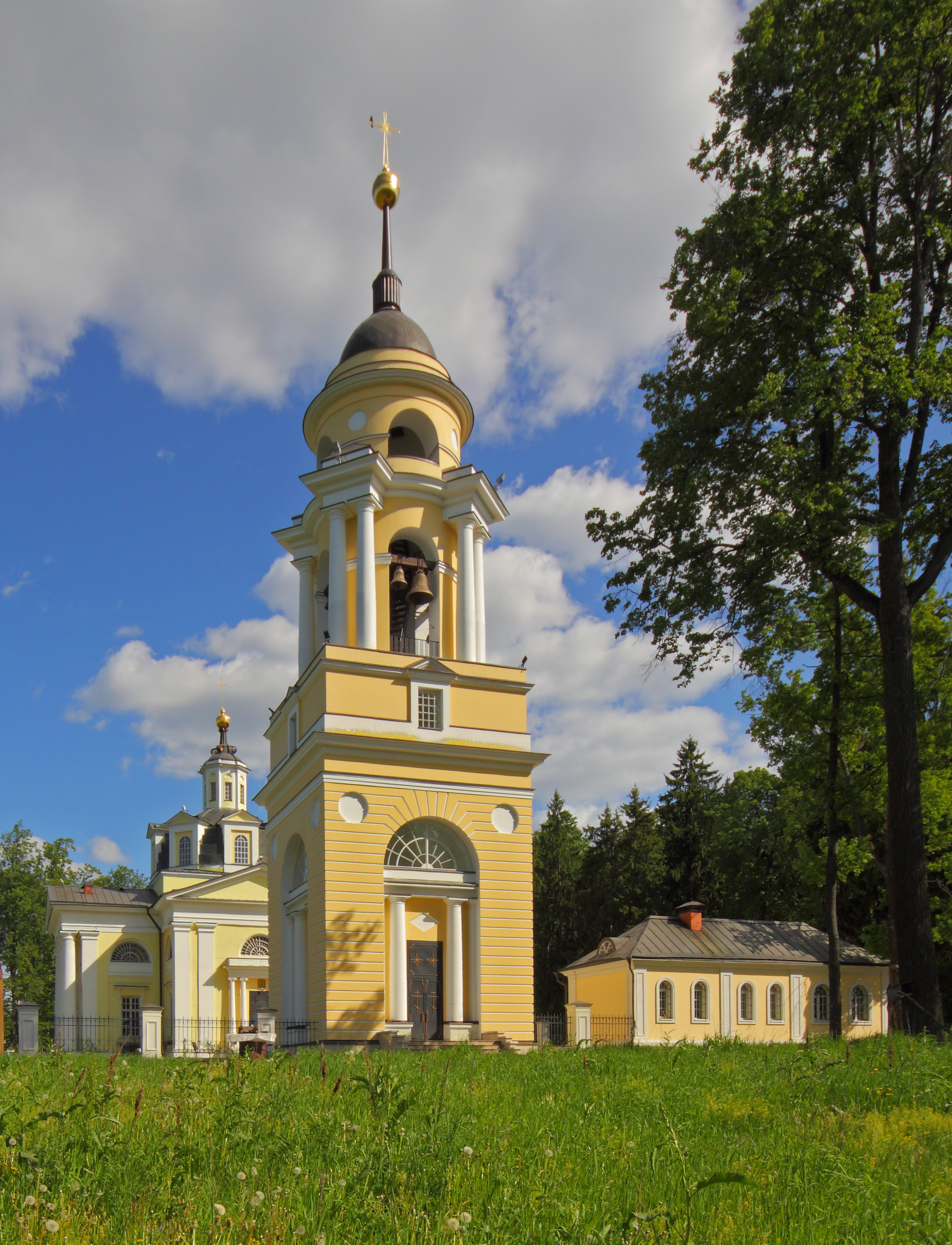 Mytischi District, Moscow Oblast, Russia. Church of St. Nicholas in Nikolo-Prozorovo.